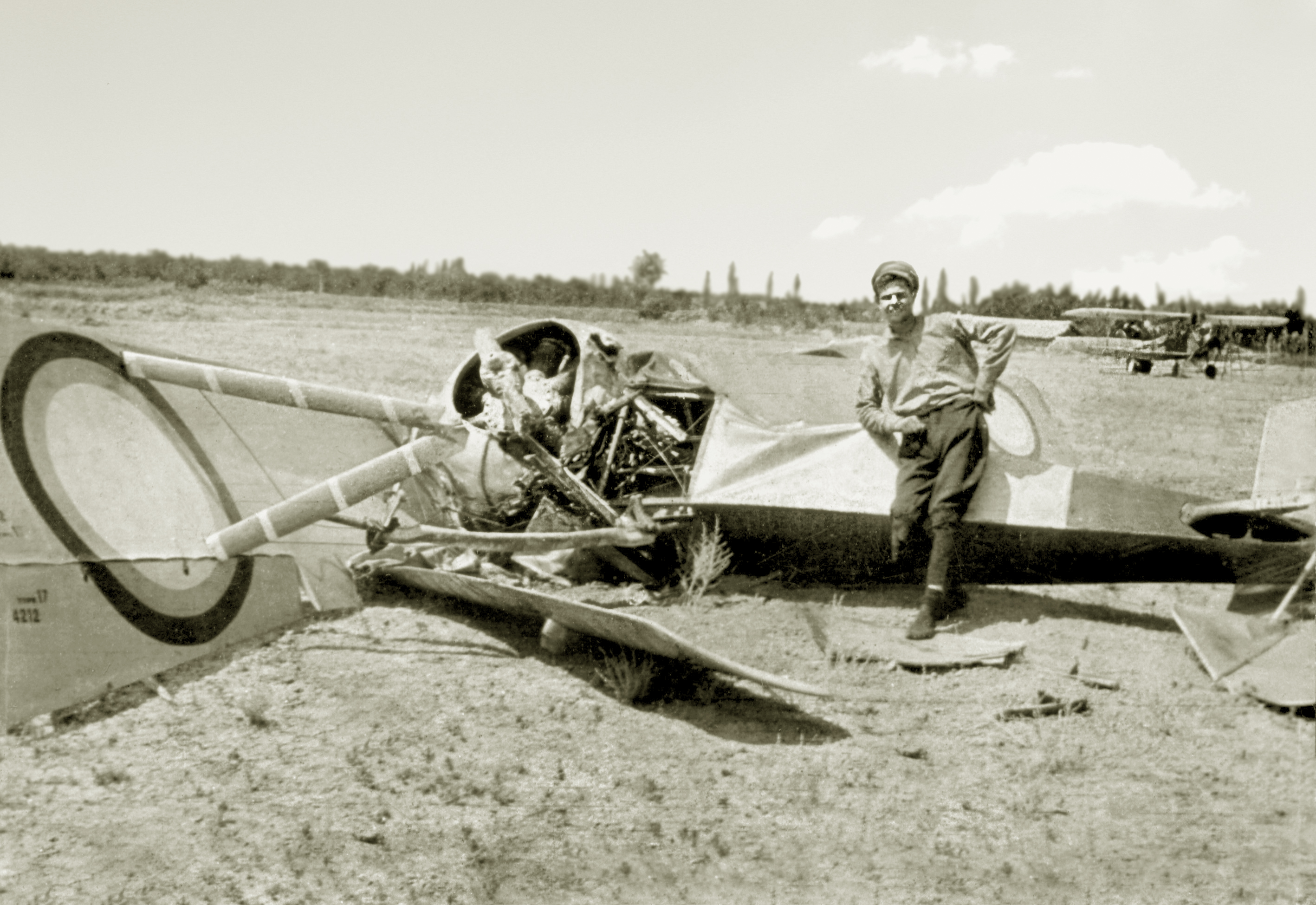 Naval Aviation Officer's School in Baku.